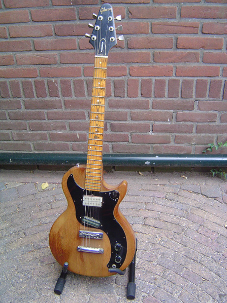 1987 heavily used gibson marauder (author: wim seegers)